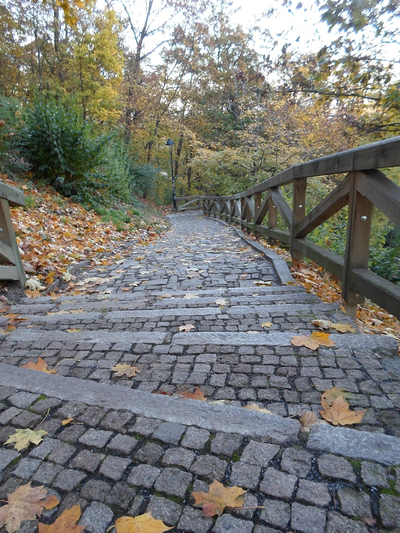 Stone pathway in Zahrada Kniskych, Petrin